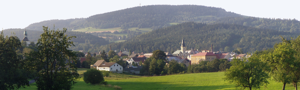 Hodkovice nad Mohelkou, Liberec District, Czech Republic. A general view from the South, from Sedlejovice road.